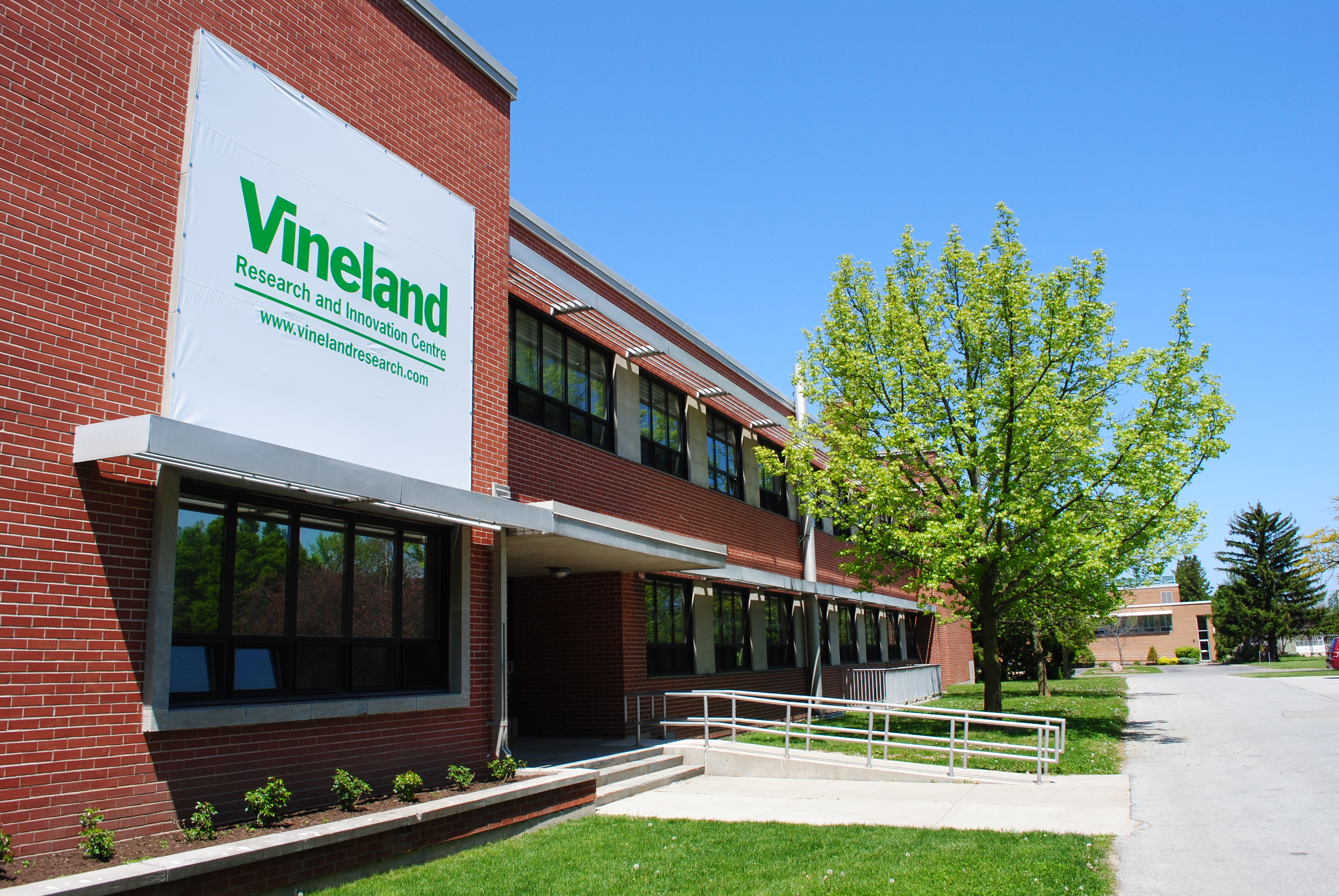 The main office of the Vineland Research and Innovation Centre in Vineland, Ontario.